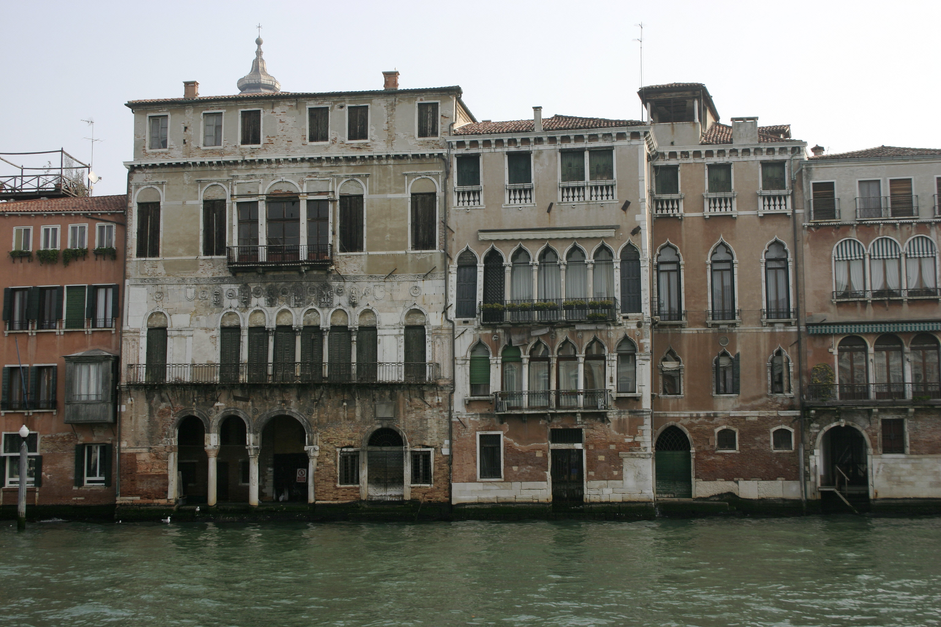 Palace Ca’ Da Mosto on the Grand Canal in Venice and Bollani Erizzo at extreme right